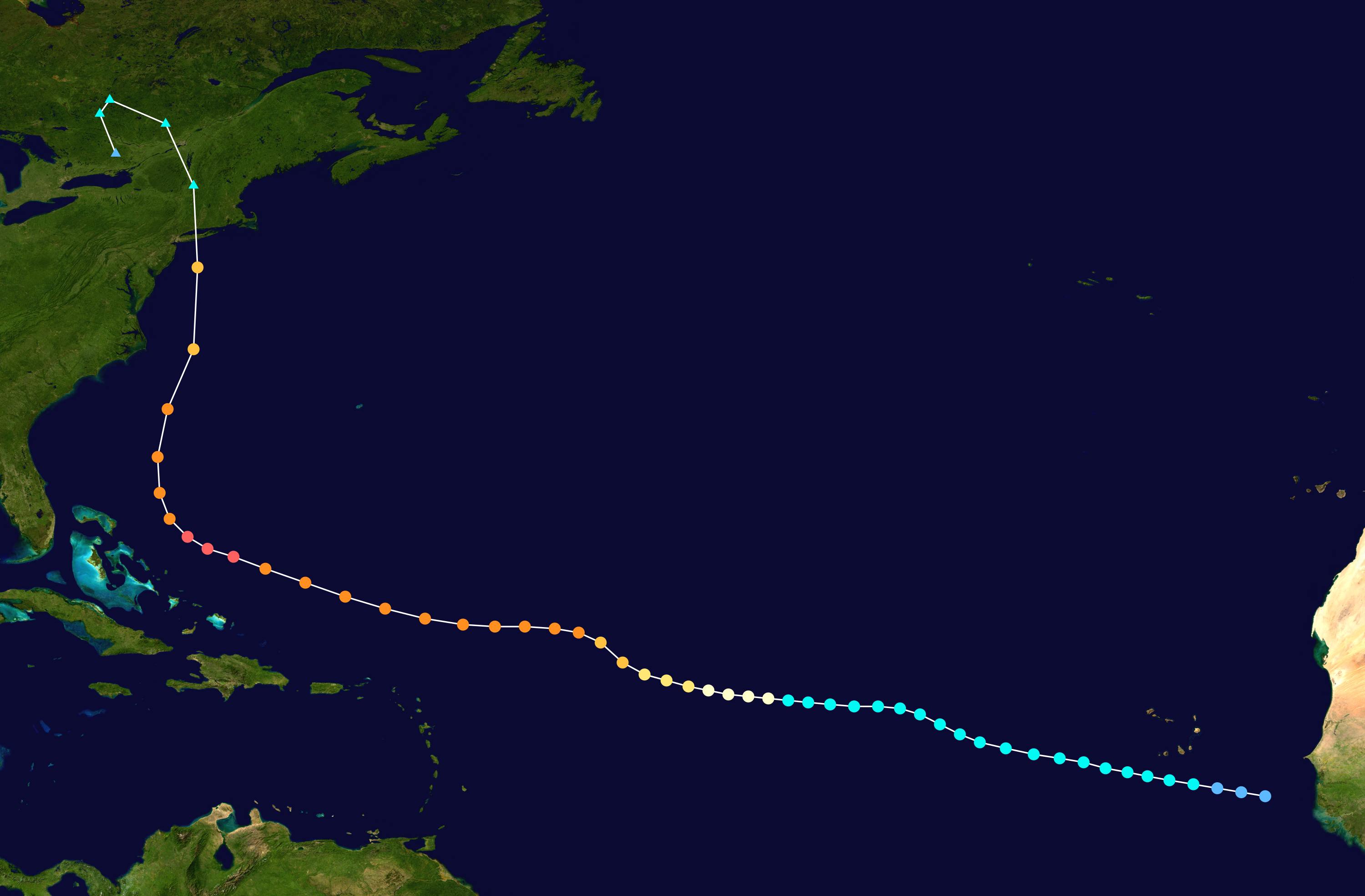 1938 New England hurricane track. Uses the color scheme from the Saffir-Simpson Hurricane Scale.